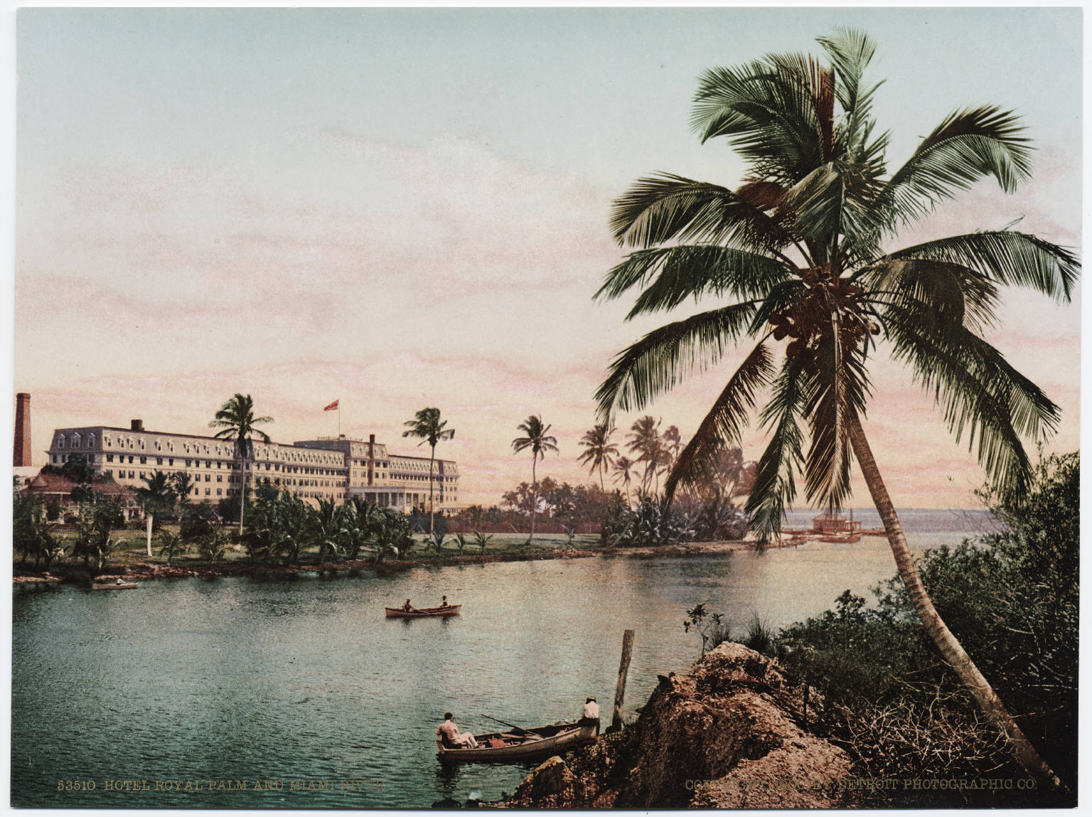 A photochrom postcard published by the Detroit Photographic Company.